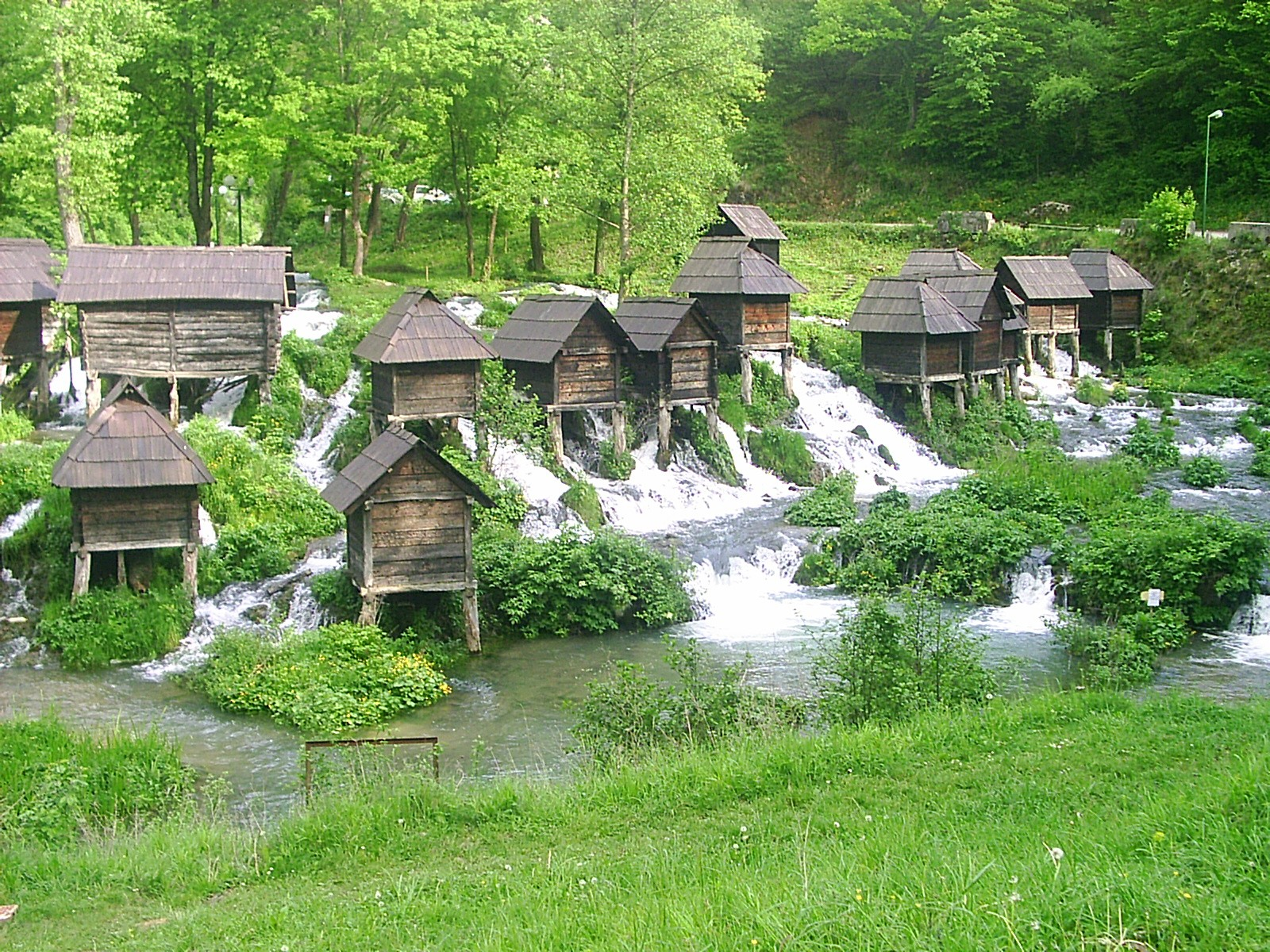 Small mills at Pliva River near Jezero and Jajce, RS, BiH